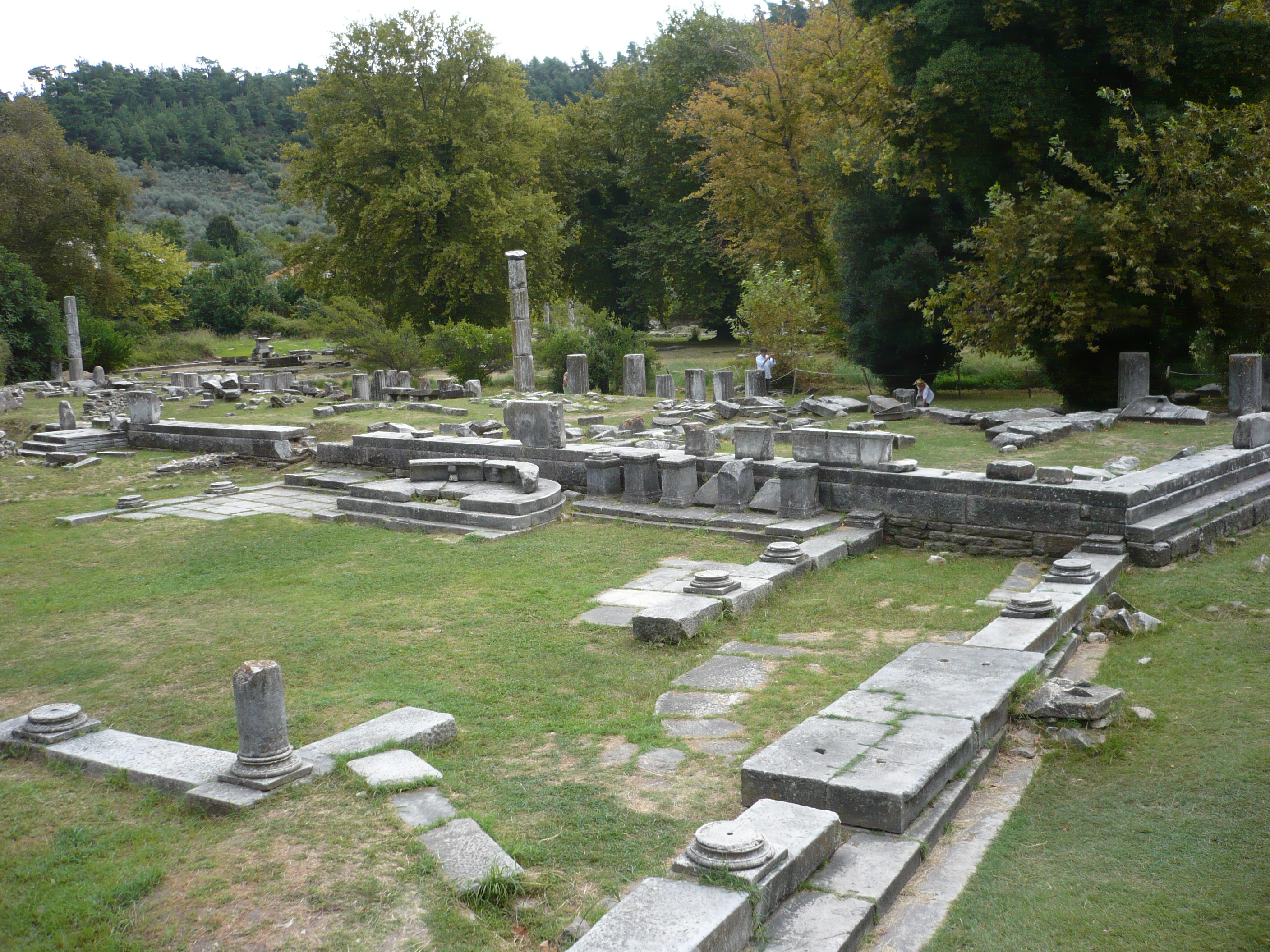 Ancient Agora of Thasos«Αρχαία Θάσος»